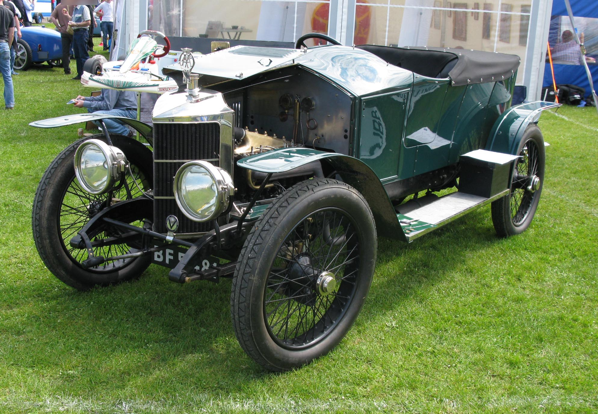 1912 Vauxhall C-Type Prince Henry.Event: Tjolöholm Classic Motor 2012.